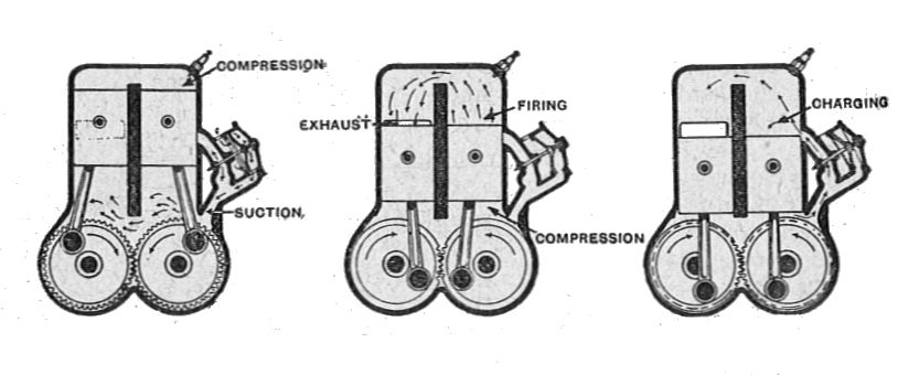 Fig. 32 Split-single two-stroke petrol engine, as used in the "Valveless" car.